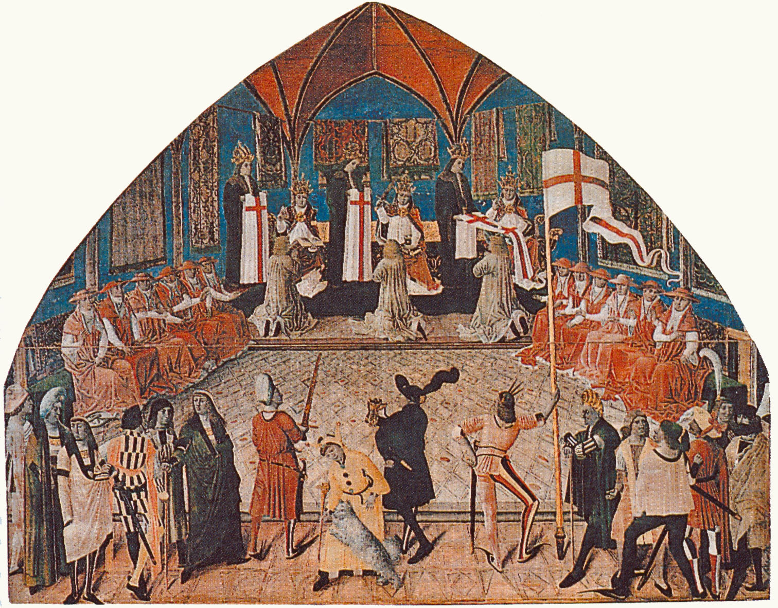 Pope Paul II invests the first Grand Master of the Knights of St George in the presence of Holy Roman Emperor Frederick III on January 1st, 1469.